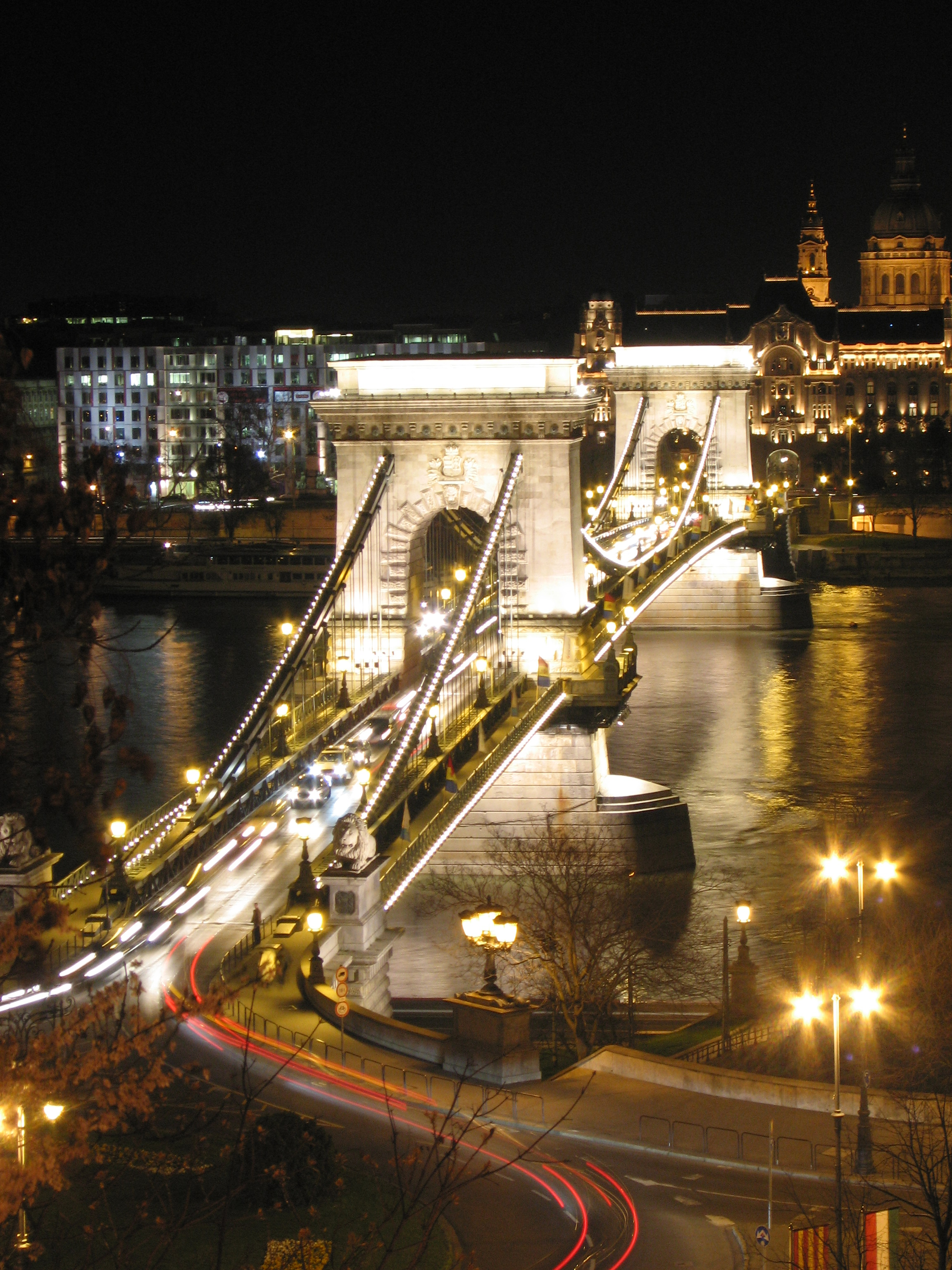 Lánc Híd by night